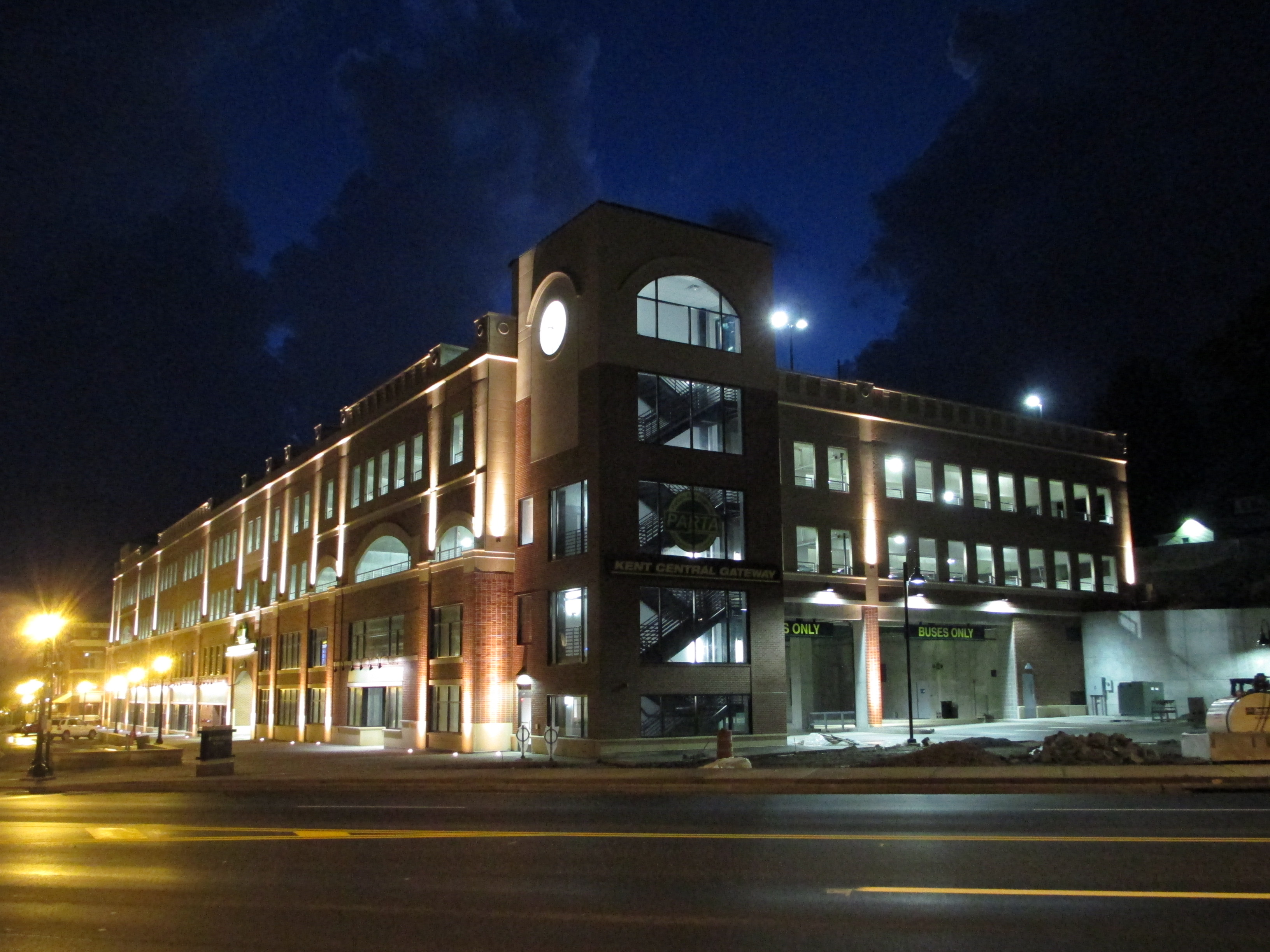 View of the Kent Central Gateway in downtown Kent, Ohio, which includes bus bays, a parking garage, and retail areas. It opened in 2013 and was mainly funded by a Federal transportation grant.